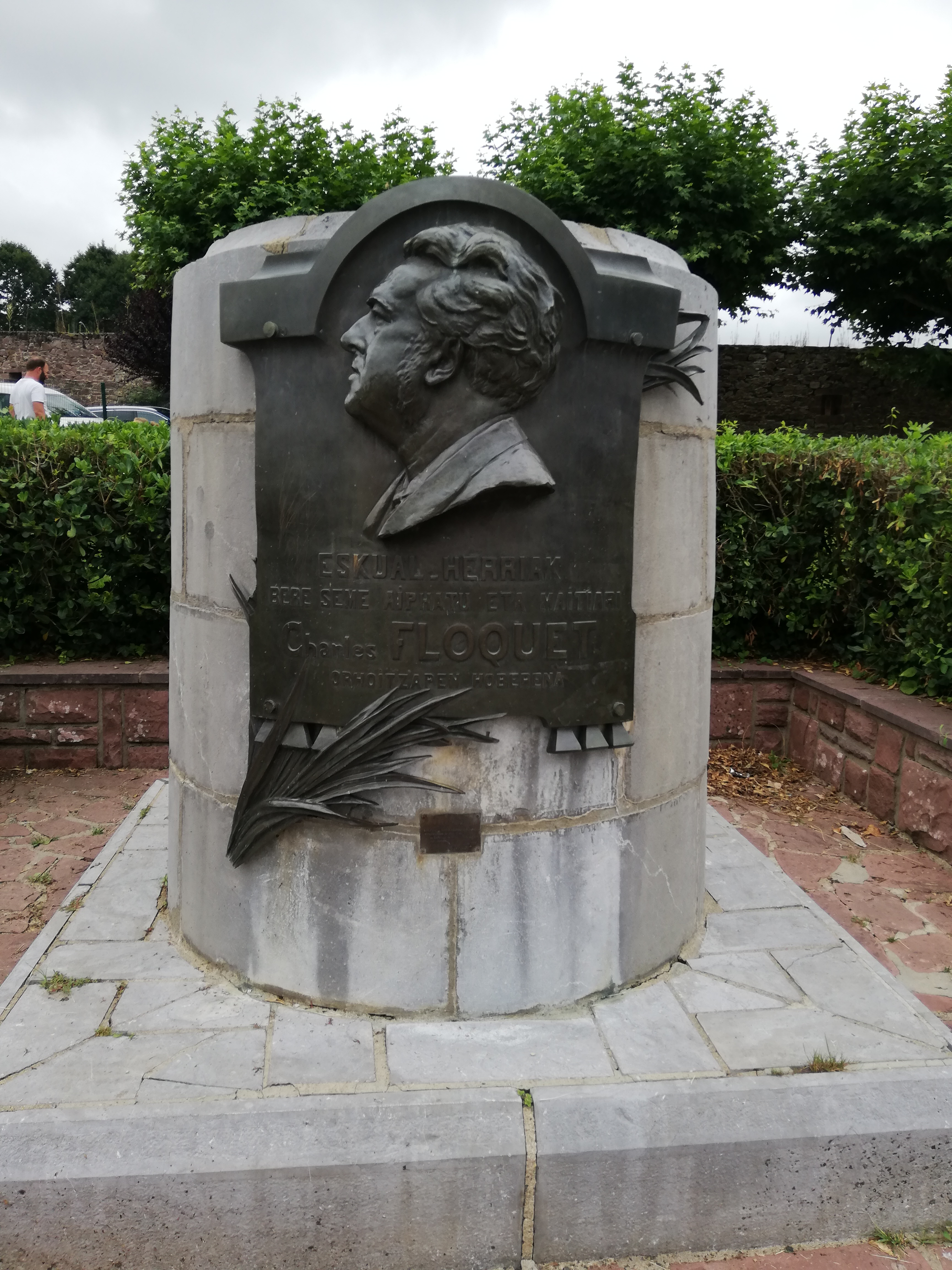 Monolith placed in the city gardens